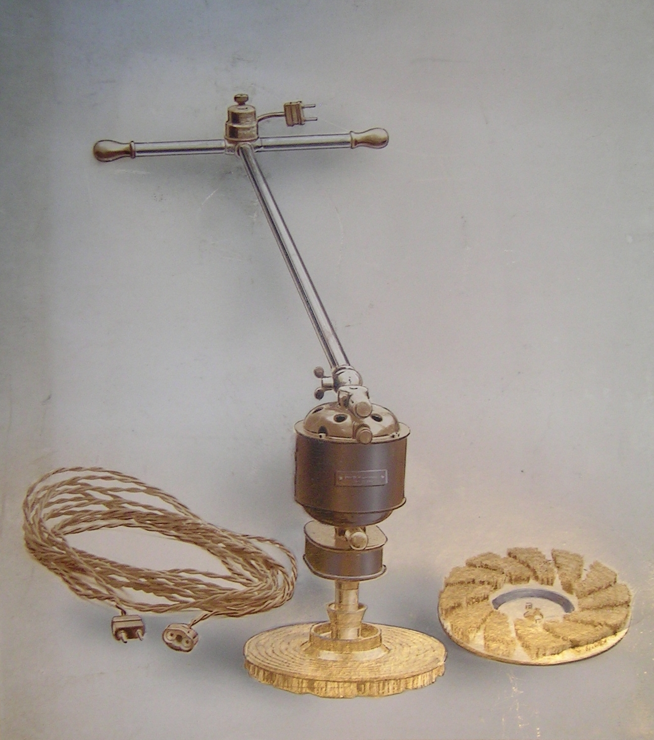 First electric floor polishing machine constructed in 1904 by the Hungarian engineer Pongraz, who failed with this construction and his company.